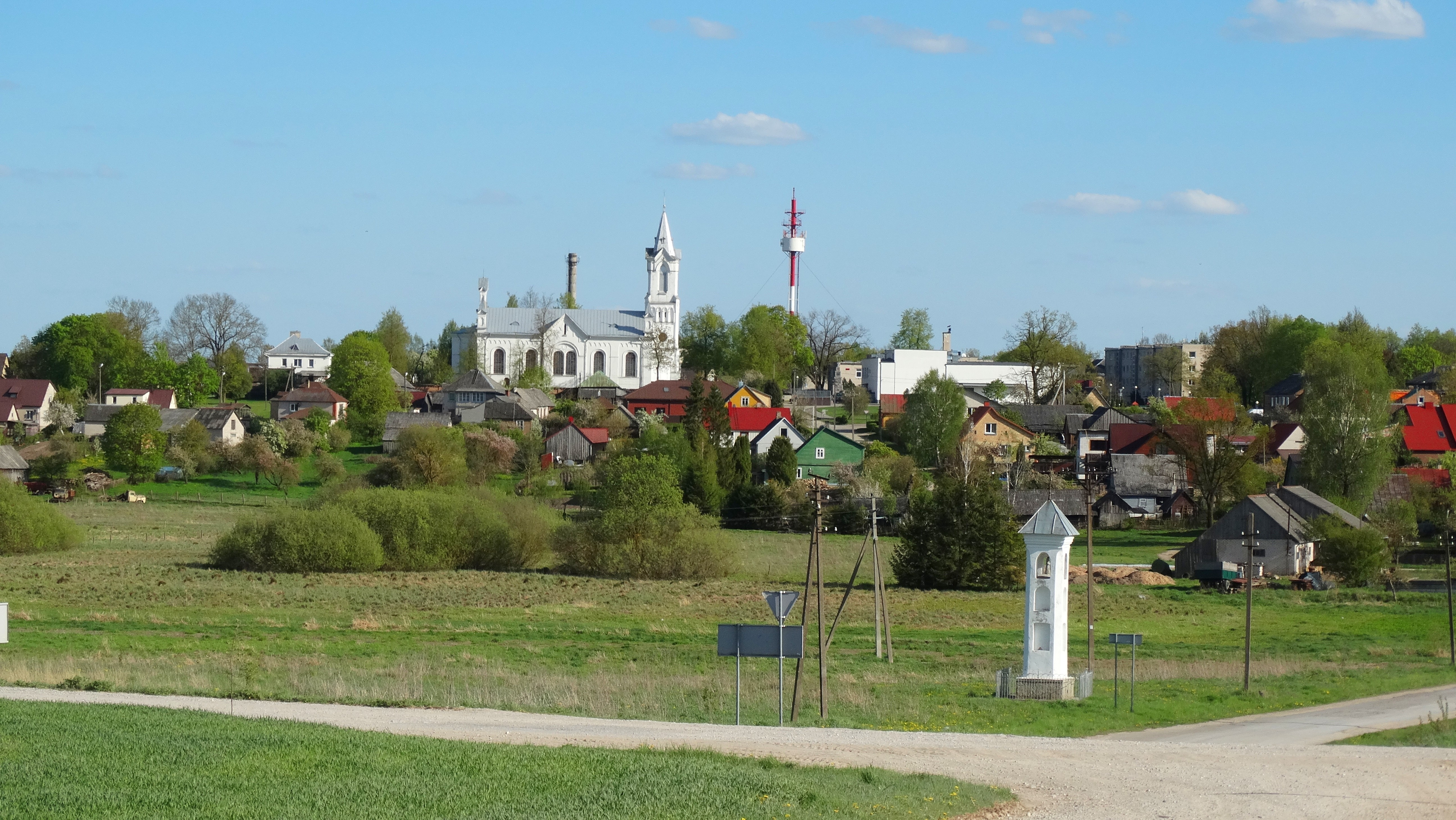 Baisogala, Radviliškis District, Lithuania